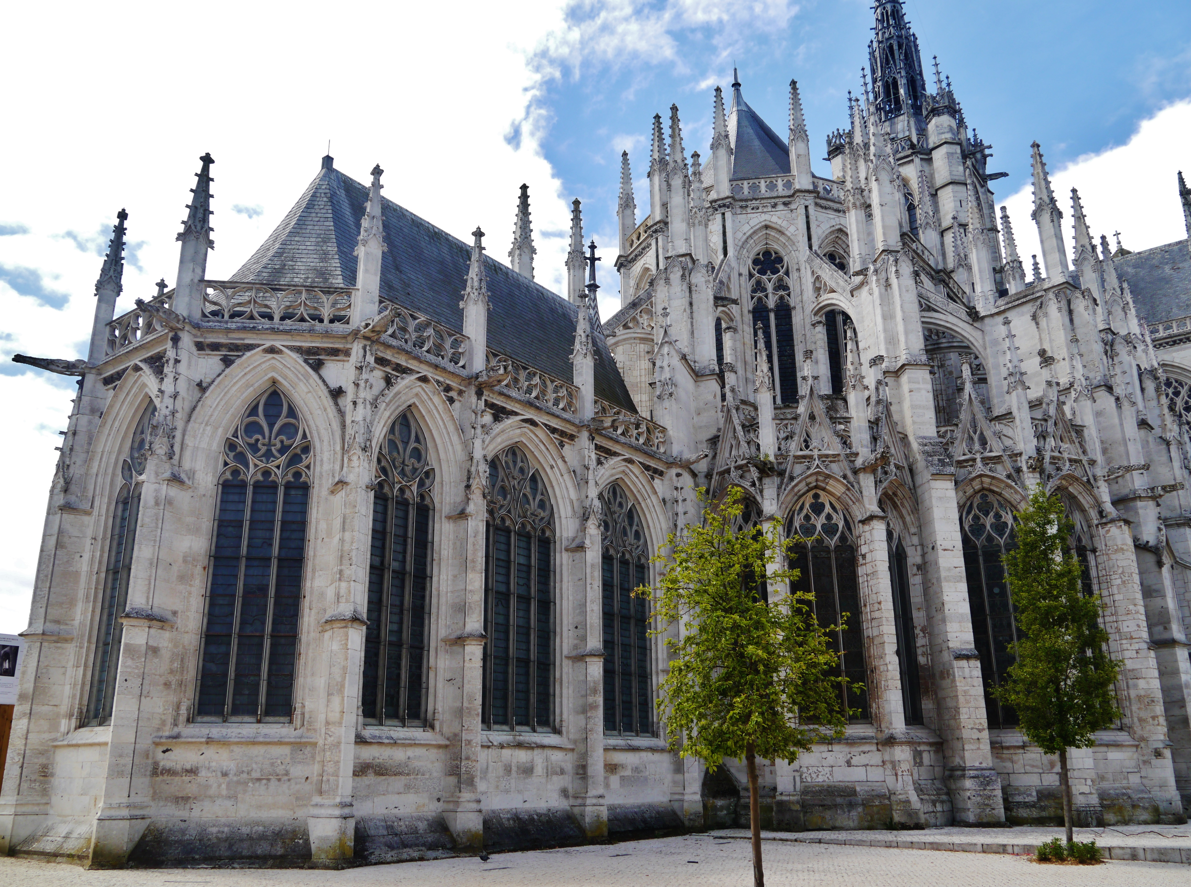 Ambulatory Chapel of the Cathedral of Our Lady, Évreux, Region of Normandy (former Upper Normandy), France